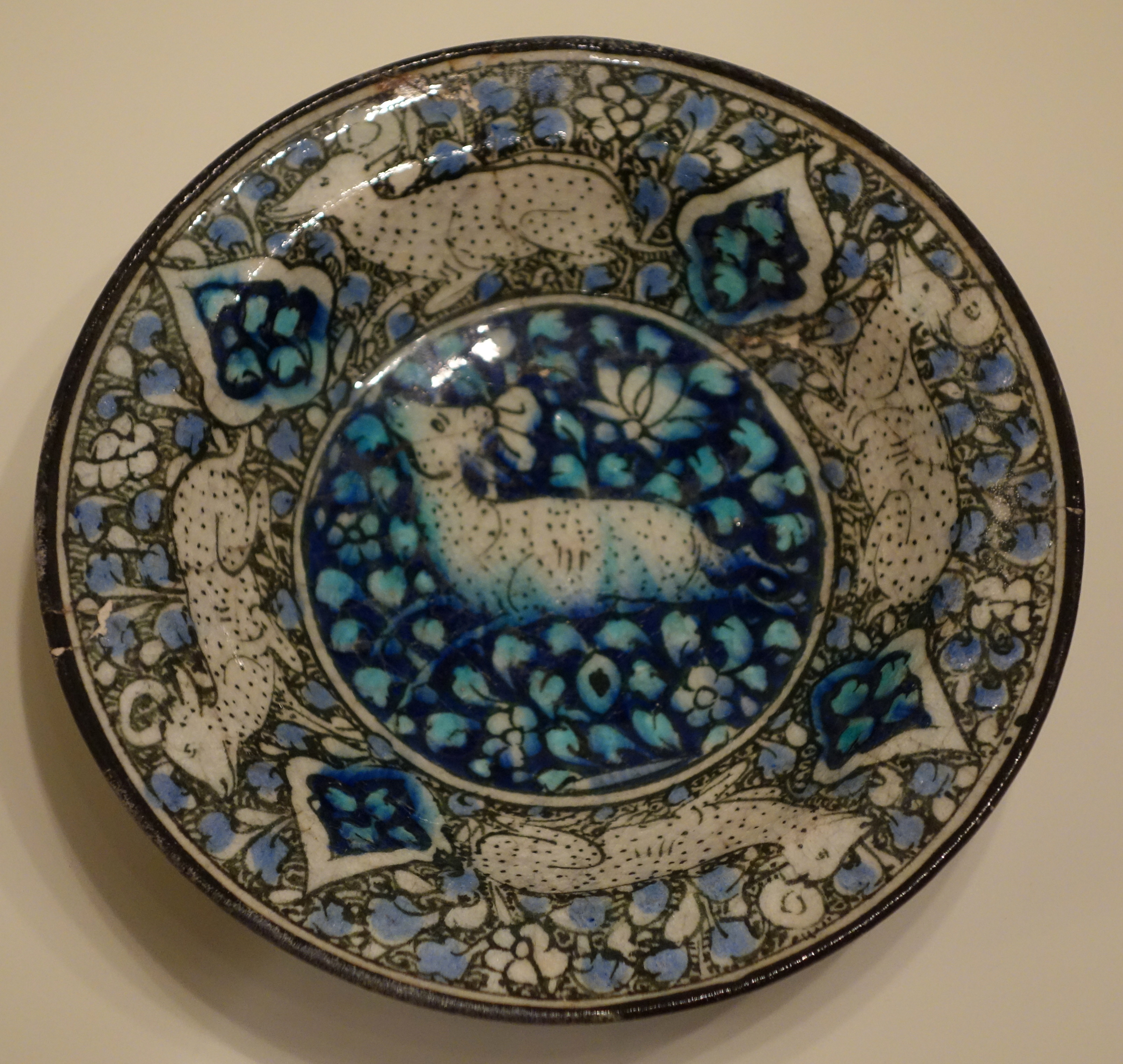 Exhibit in the Cincinnati Art Museum, Cincinnati, Ohio, USA. This artwork is in the public domain because the artist died more than 70 years ago.